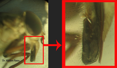 Tartarus subsimilis (guatemalus) (HINE)